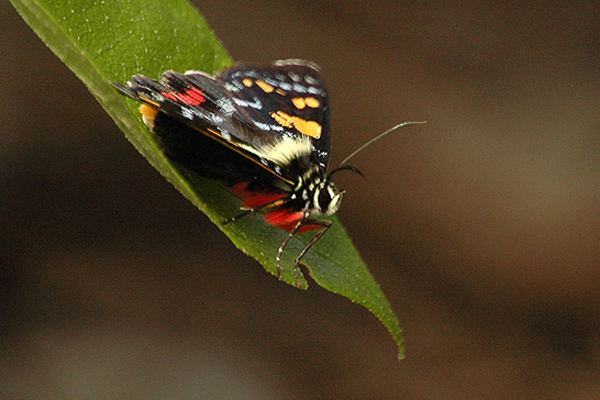 Agarista agricola, Agaristinae, Noctuidae (originally identified as Regent Skipper (Euschemon rafflesia) but not a Hesperiid as evident from antenna )